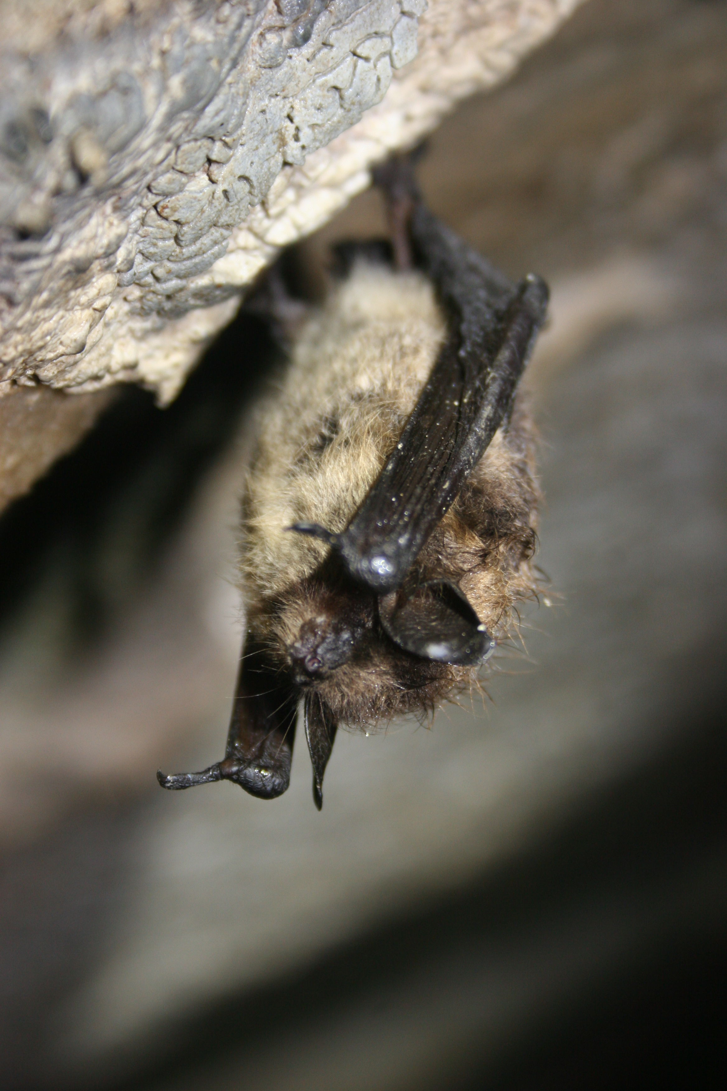 Healthy little brown bat in Mt. Aeolus Cave photo credit: Ann Froschauer/USFWS